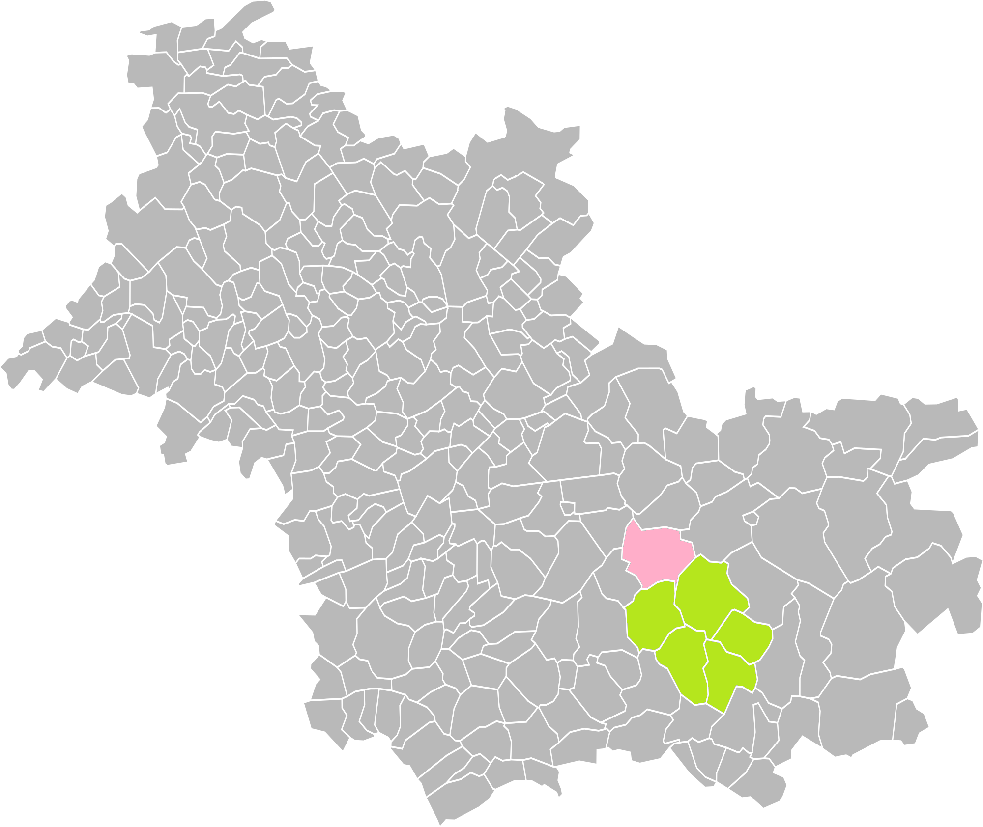 Location of the commune of Vernou-en-Sologne in the canton of Romorantin-Lanthenay (Loir-et-Cher)